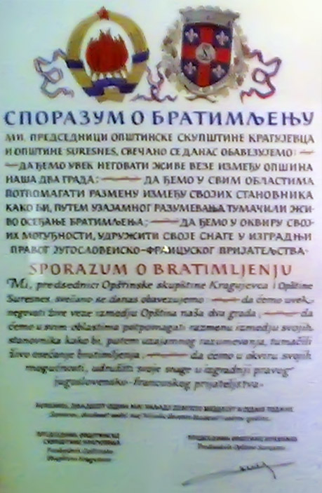 I pictured this image in Kragujevac city hall